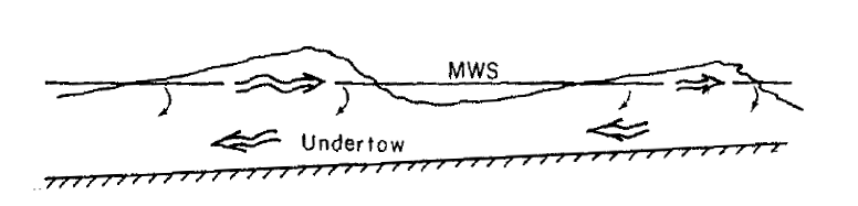 A sketch of the undertow (below the wave troughs) and the shore-directed wave-induced mass transport (above the troughs), in a vertical cross-section across the the surf zone.Figure 1 in:J. Buhr Hansen & I.A. Svendsen (1984) "A theoretical and experimental study of undertow." In: B.L. Edge (Ed.), Proceedings 19th International Conference on Coastal Engineering, Houston, vol. 2, ASCE, pp. 2246–2262.